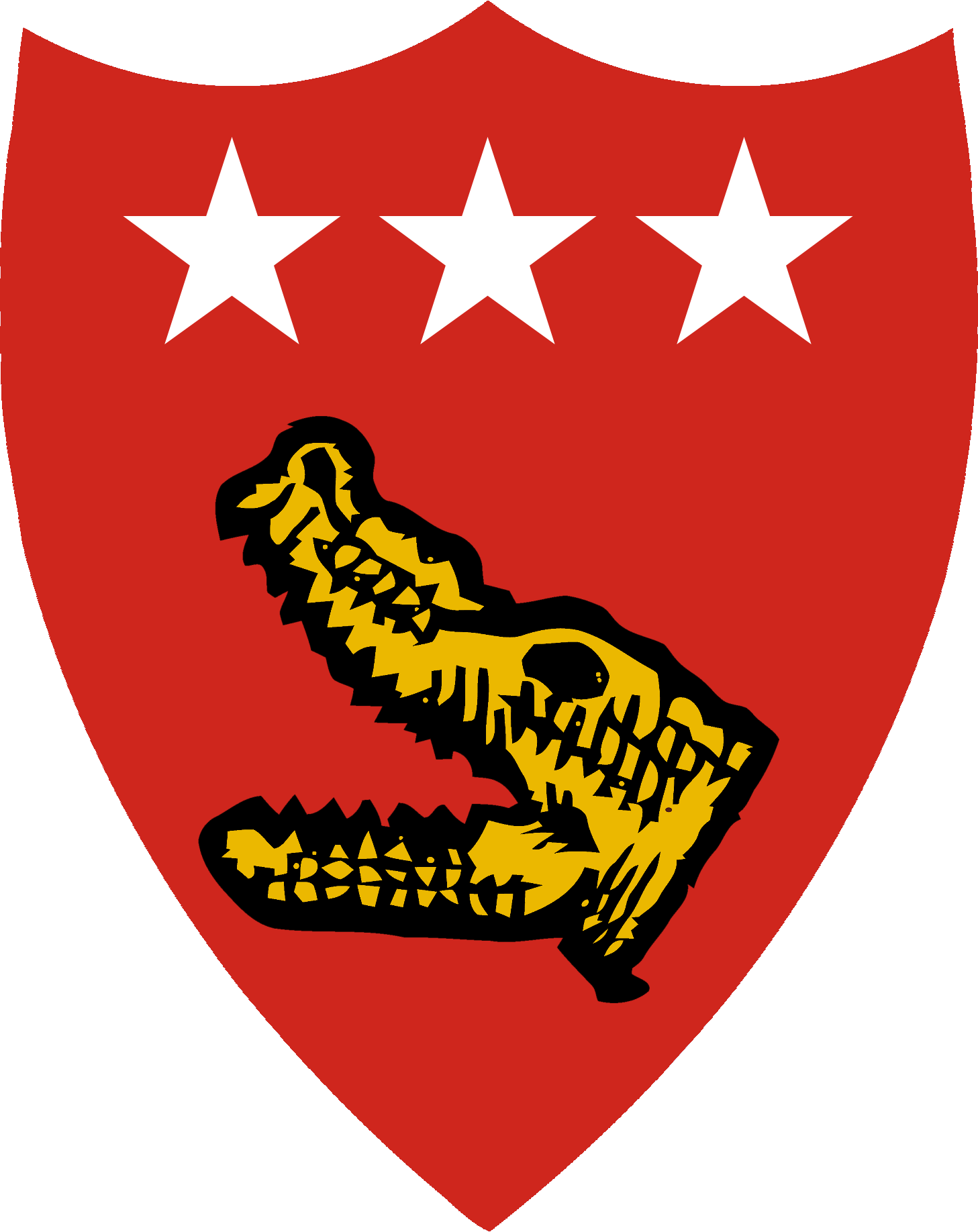 Photos may be used if proper credit given.